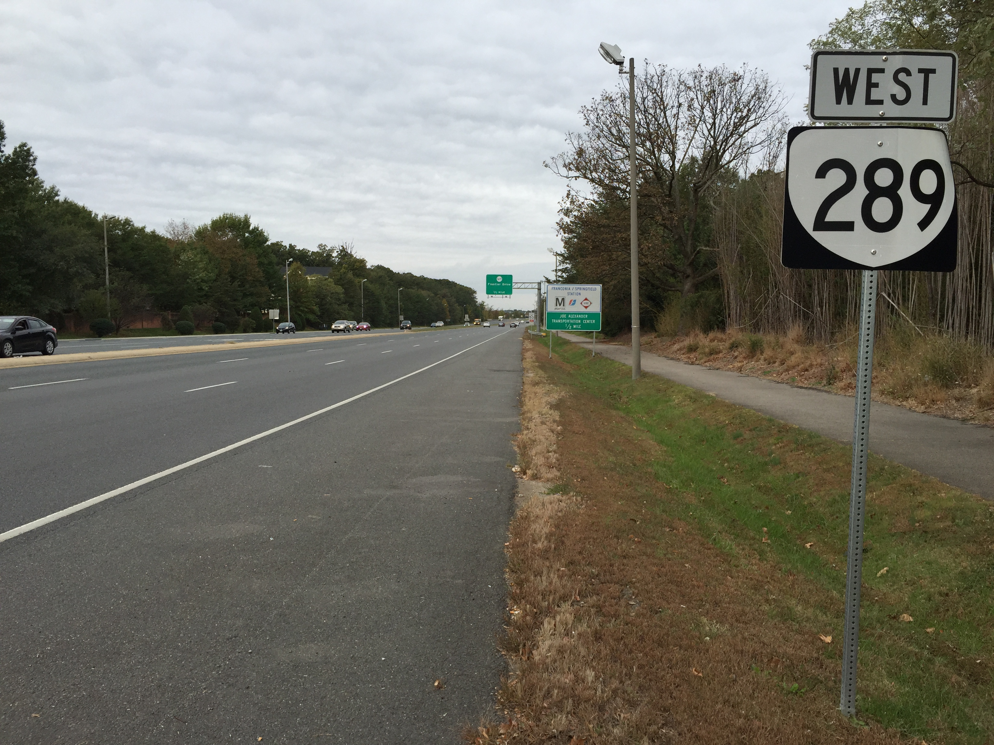 View west along Virginia State Route 289 (Franconia-Springfield Parkway) at Beulah Street (Virginia State Secondary Route 613) in Franconia, Fairfax County, Virginia